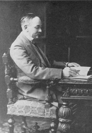 A picture of Robert Rolfe